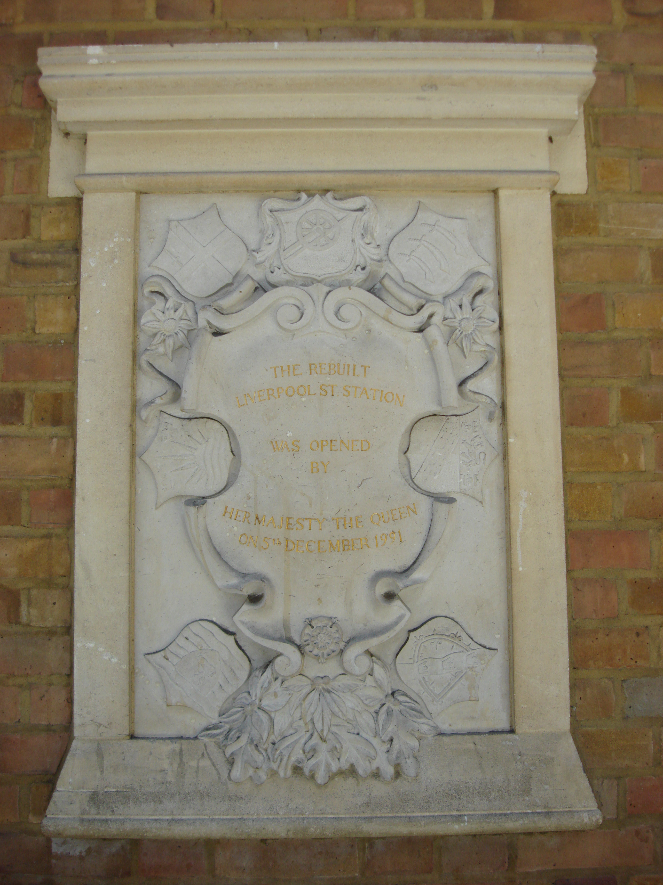 Plaque recording the opening of the rebuilt Liverpool Street station by the queen on the 5th December 1991